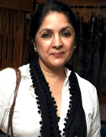 Neena Gupta at Nishka Lulla and Masaba's designs preview at Oakwood Premier